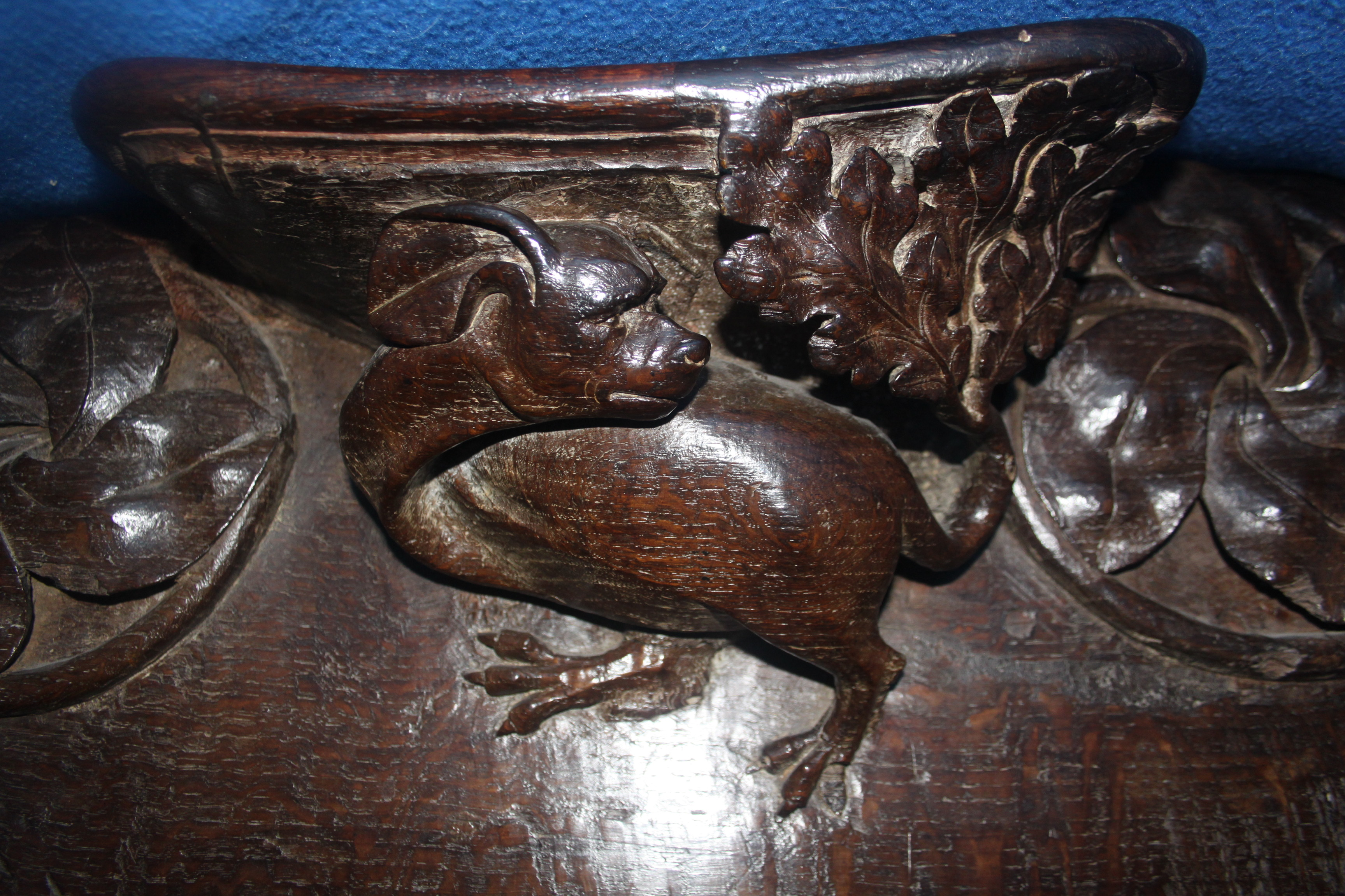 Misericords at Wells Cathedral